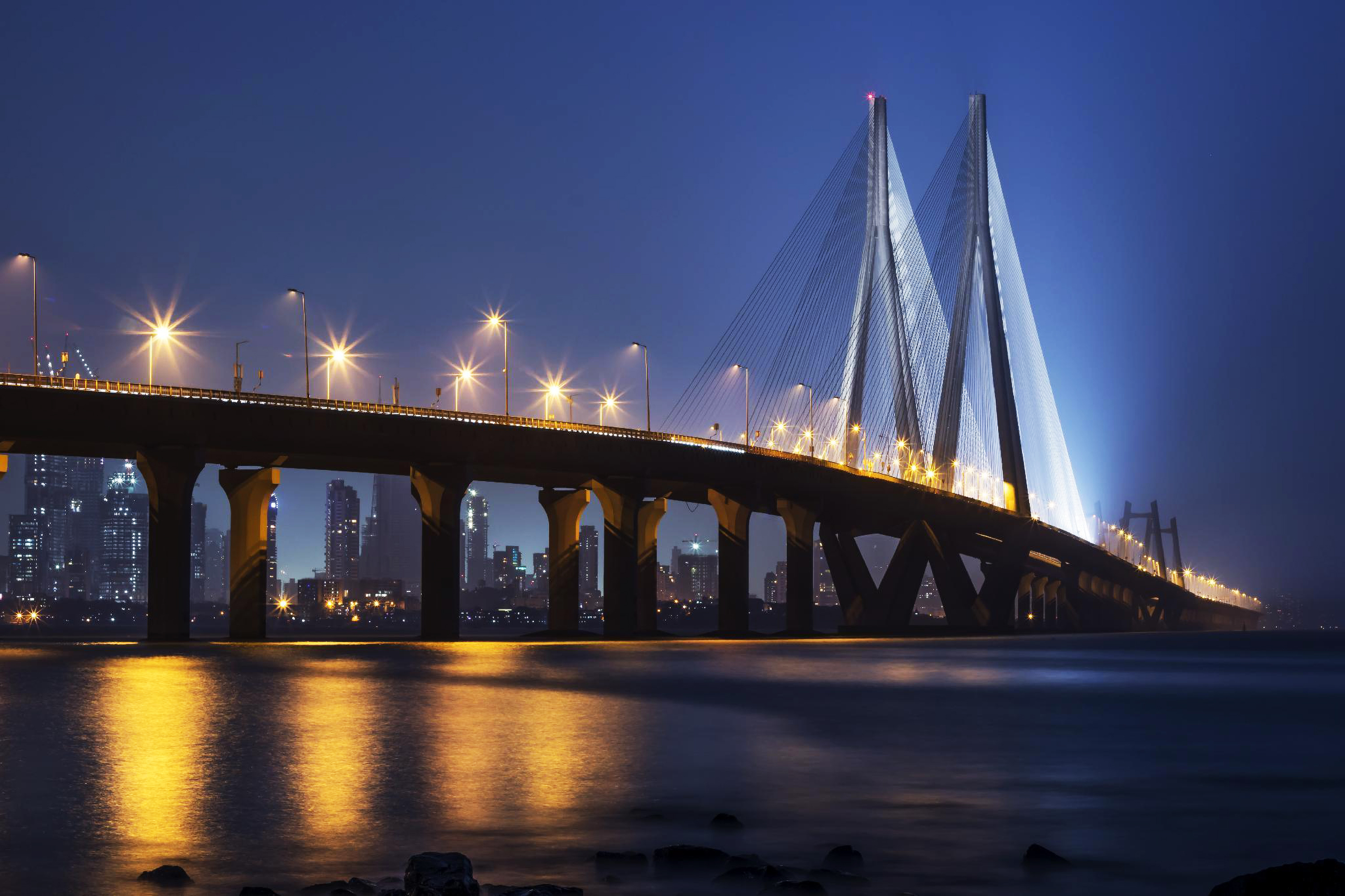 Bandra Worli Sea link